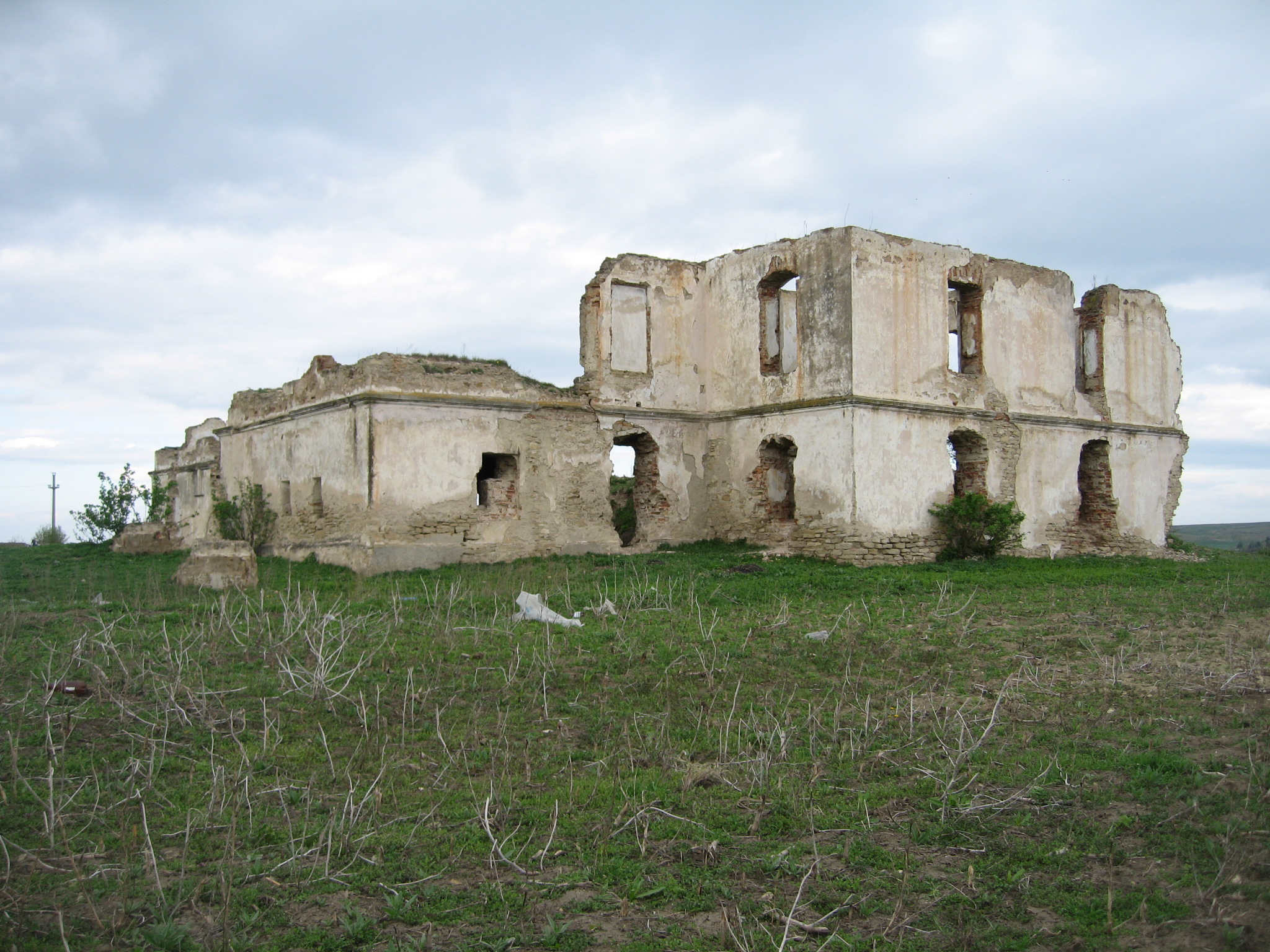 Conacul din Cepleniţa